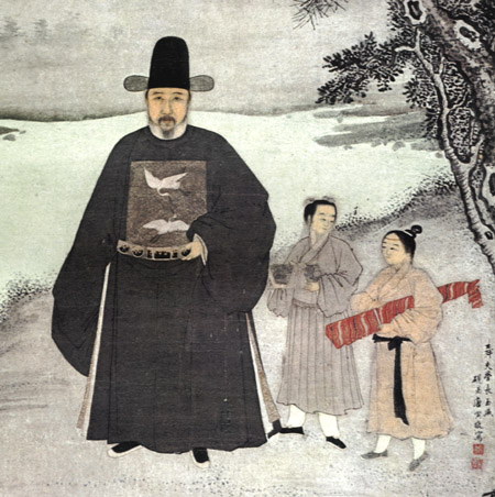 A Ming Dynasty portrait of the Chinese official Jiang Shunfu (1453–1504), now in the Nanjing Museum. The decoration of two cranes on his chest are a "rank badge" that indicate that he was a civil official of the sixth rank; refer to page 282 of Patricia Ebrey's paperback edition of Cambridge Illustrated History of China.